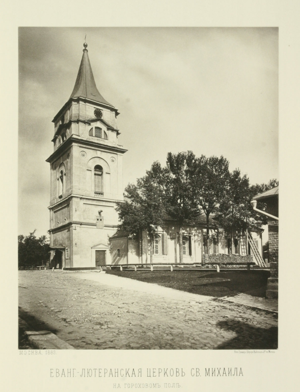 Lutheran church of St. Michael, Moscow.